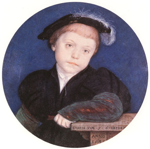 Portrait Miniature of Henry Brandon, 2nd Duke of Suffolk (1535-1551), son of Charles Brandon, 1st Duke of Suffolk, and Catherine Willoughby. Miniature by Hans Holbein the Younger, vellum mounted on playing card, 5.7 cm in diameter. Royal Collection at Windsor Castle. Henry Brandon and his brother Charles (right) were tutored first by Thomas Wilson and later, with Edward VI, by John Cheke. Henry inherited his father's title in 1545. The brothers went on to St John's College, Cambridge, but they died of the sweating sickness in 1551. Since Henry died about an hour before him, Charles is deemed to have succeeded his brother as Duke of Suffolk. (John Rowlands, Holbein: The Paintings of Hans Holbein the Younger, Boston: David R. Godine, 1985, ISBN 0879235780, pp. 151–52.)